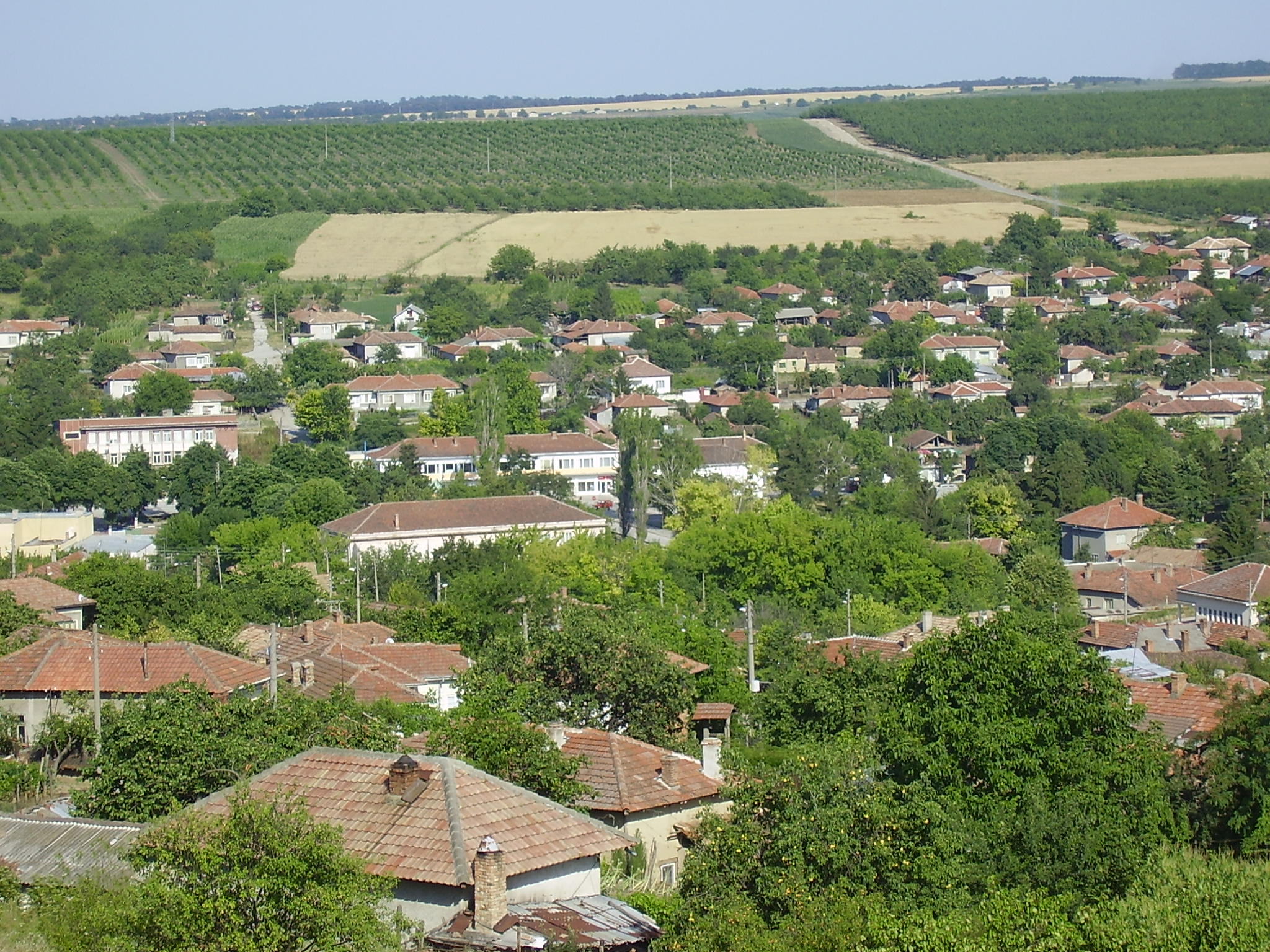 Panoramic view of Profesor Ishirkovo village in Bulgaria